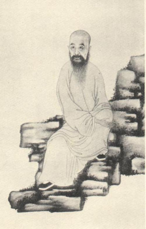 Sun Yang, scholar of the Qing Dynasty.